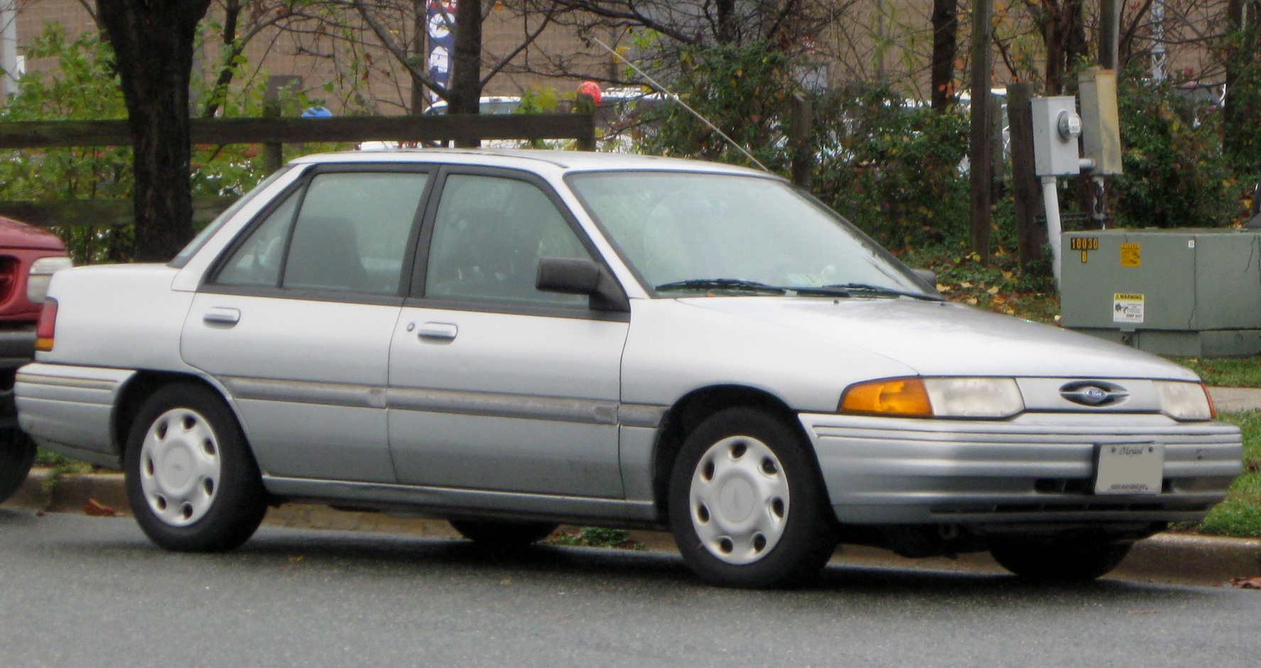 1995-1996 Ford Escort photographed in Silver Spring, Maryland, USA.